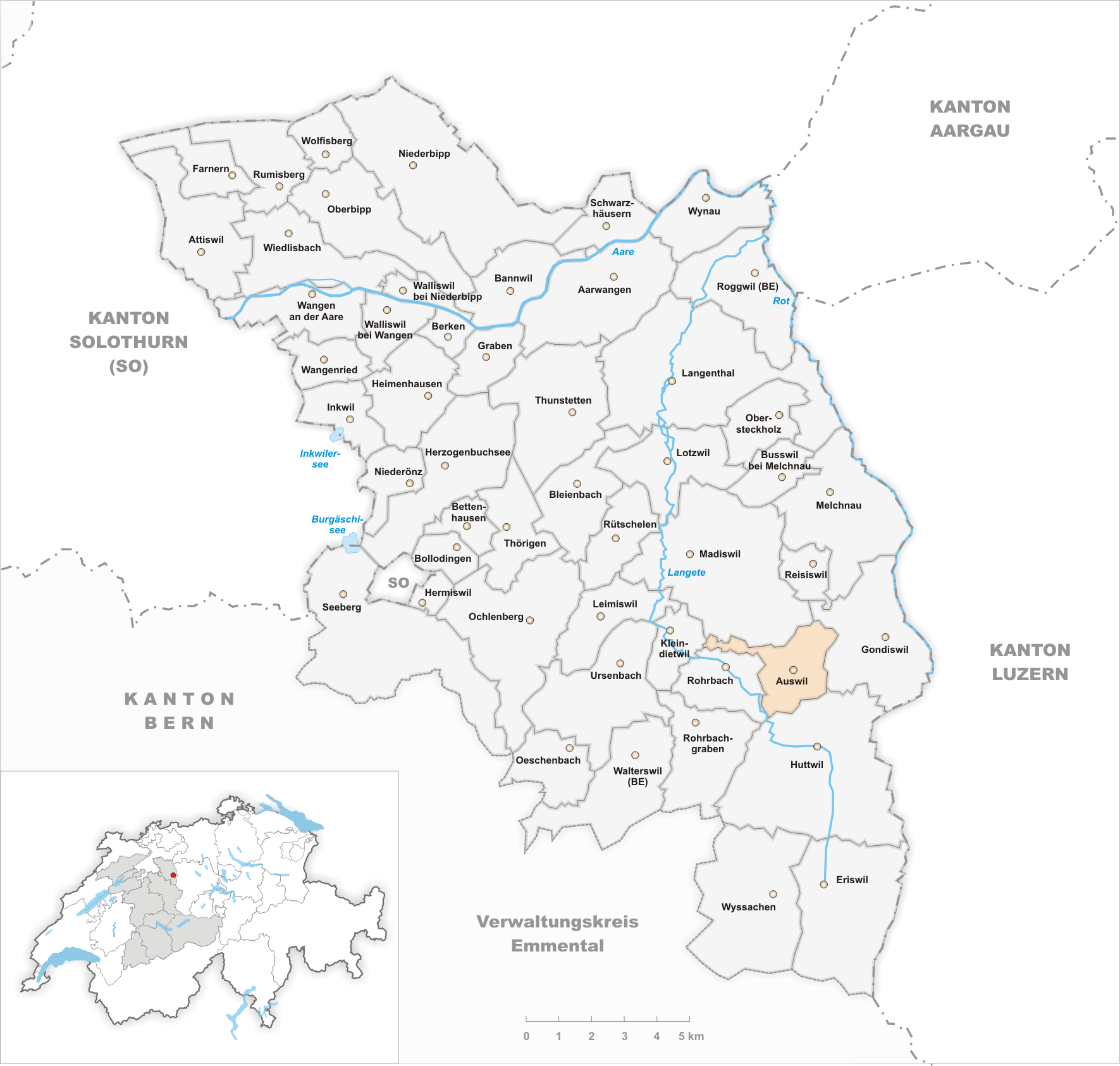 Municipality Auswil